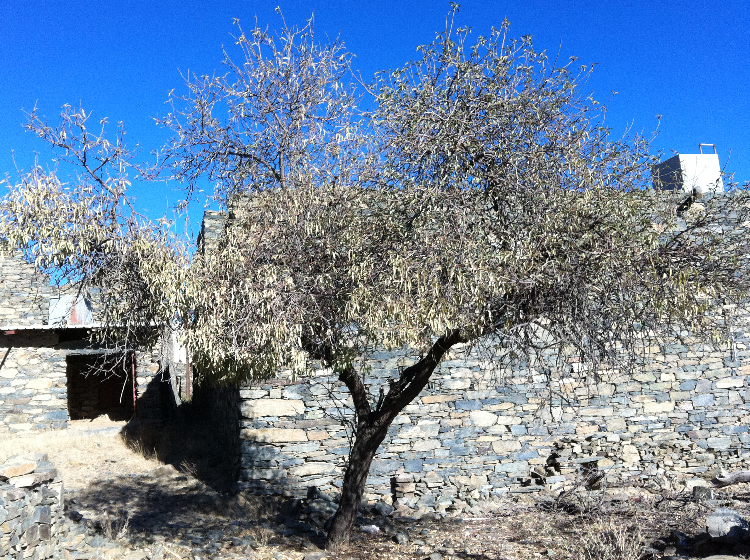 An old almond tree in Saudi Arabia.